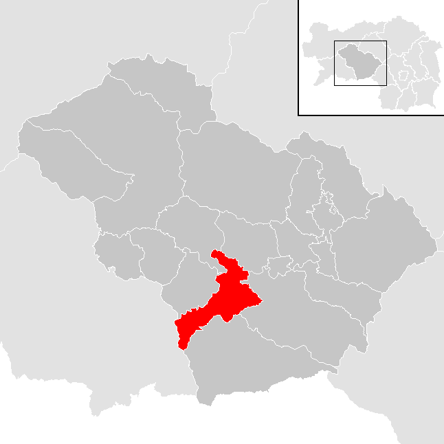 district Murtal in Styria, Austria